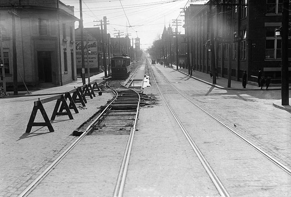 Streetcar work in 1917 along Queen Street East, Toronto, Ontario, Canada. Looking west from Don River. **NOTE: Image is incorrectly titled. It is Queen Street East, not West.**